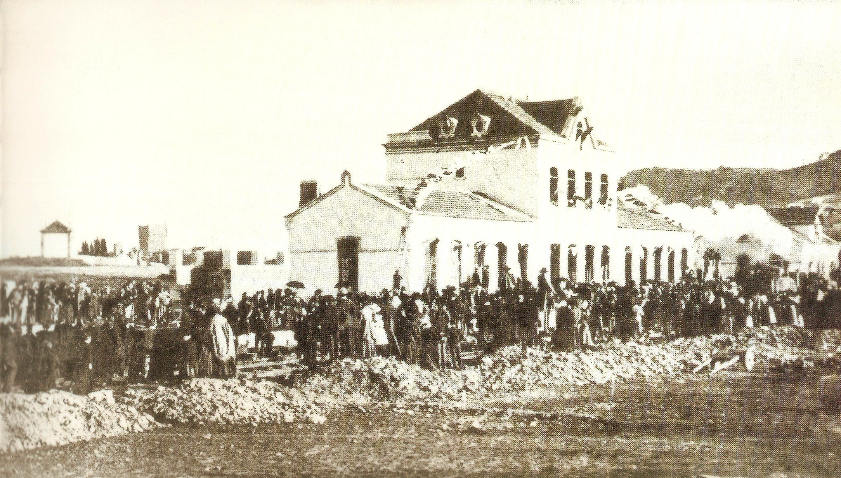 Inauguration ceremony of the Tua Railway at the Braganza Railway Station, in Portugal, on the 1st December 1906.